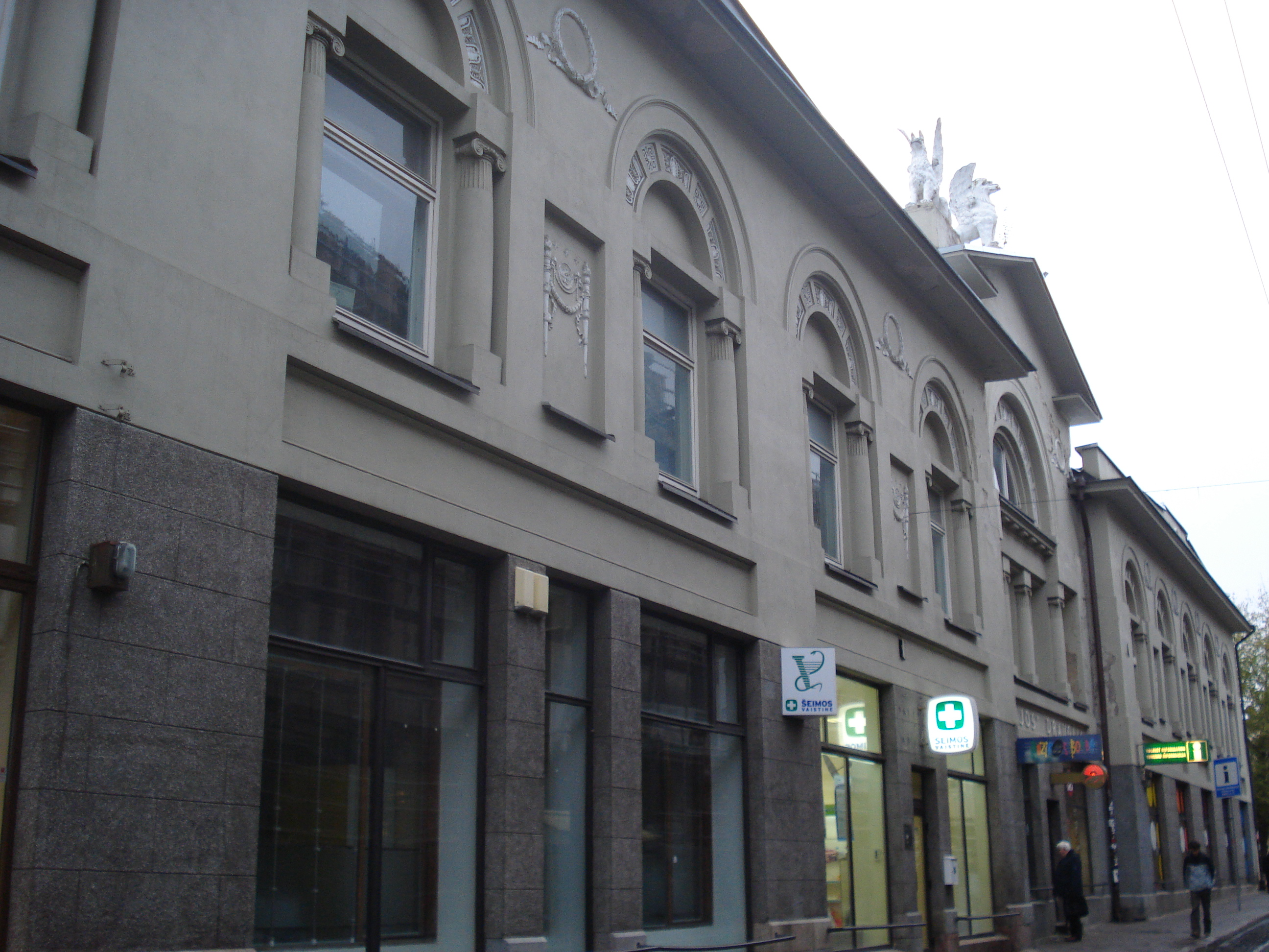 Building of the Charity in Vilnius, now Vilniaus turizmo informacijos centras, Vilniaus g. 22. Architect Aleksander Parczewski. 1911